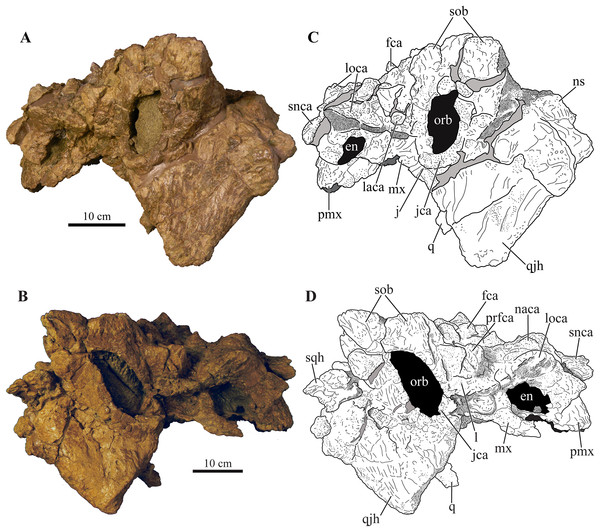 Photographs of the skull of Akainacephalus johnsoni in (A), left lateral; and (B), right lateral views. Line drawings in (C), left lateral; and (D), right lateral views highlight major anatomical features. Study sites: en, external naris; fca, frontal caputegulum; j, jugal; jca, jugal caputegulum; l, lacrimal; laca, lacrimal caputegulum; loca, loreal caputegulum; mx, maxilla; n, nasal; naca, nasal caputegulae; ns, nuchal shelf; orb, orbit; pmx, premaxilla; prfca, prefrontal caputegulum; snca, supranarial caputegulum; sob, supraorbital boss; q, quadrate; qjh, quadratojugal horn; sqh, squamosal horn.